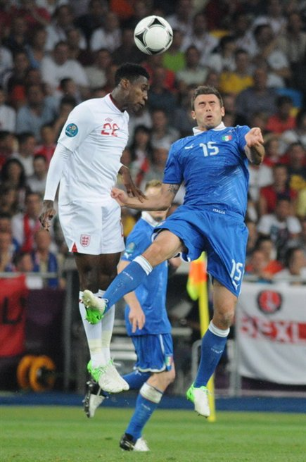 Danny Welbeck and Andrea Barzagli at Euro 2012 match England-Italy